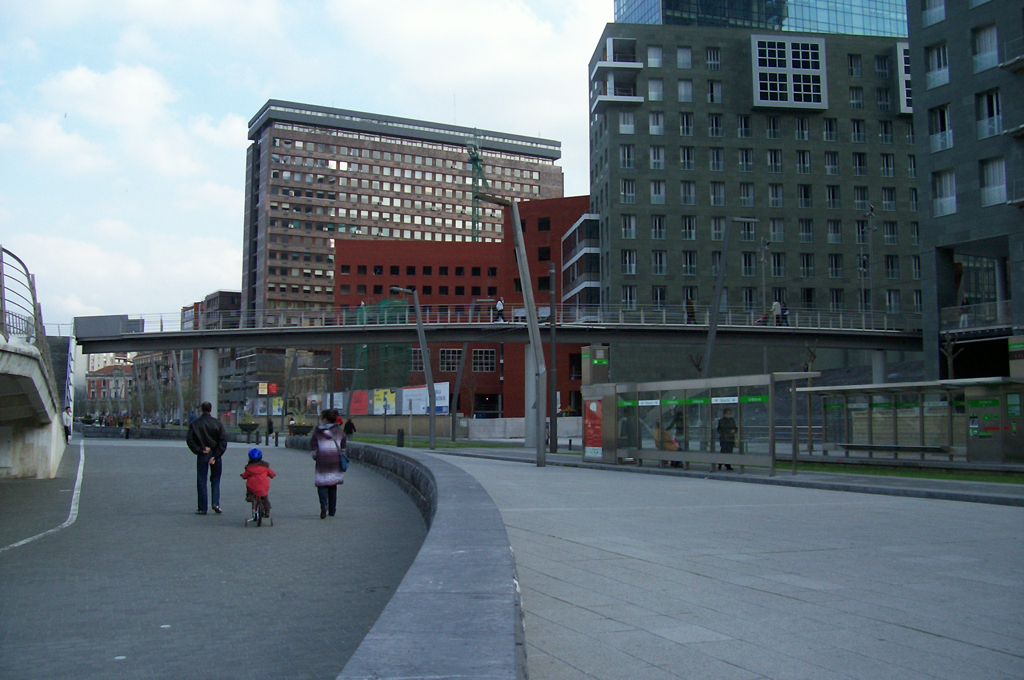 Walkway between Isozaki Towers and the Calatrava footbridge, in Bilbao